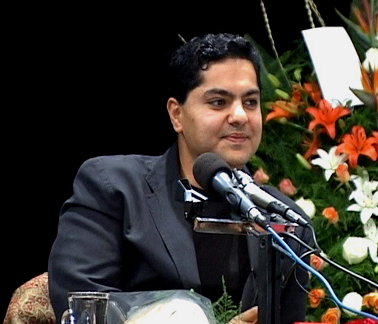 Peyman Fattahi born 1973 in Kermanshah, Iran), also known as Master Elias M., is the founder and leader of the El Yasin Community.